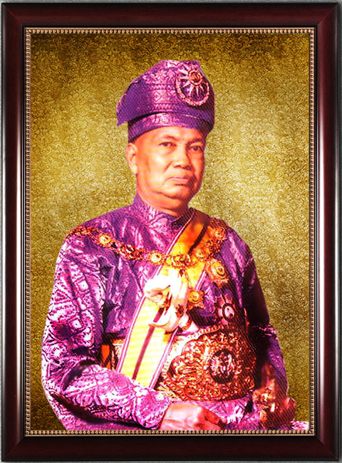 Second Yang di- Pertuan Agong of Malaysia